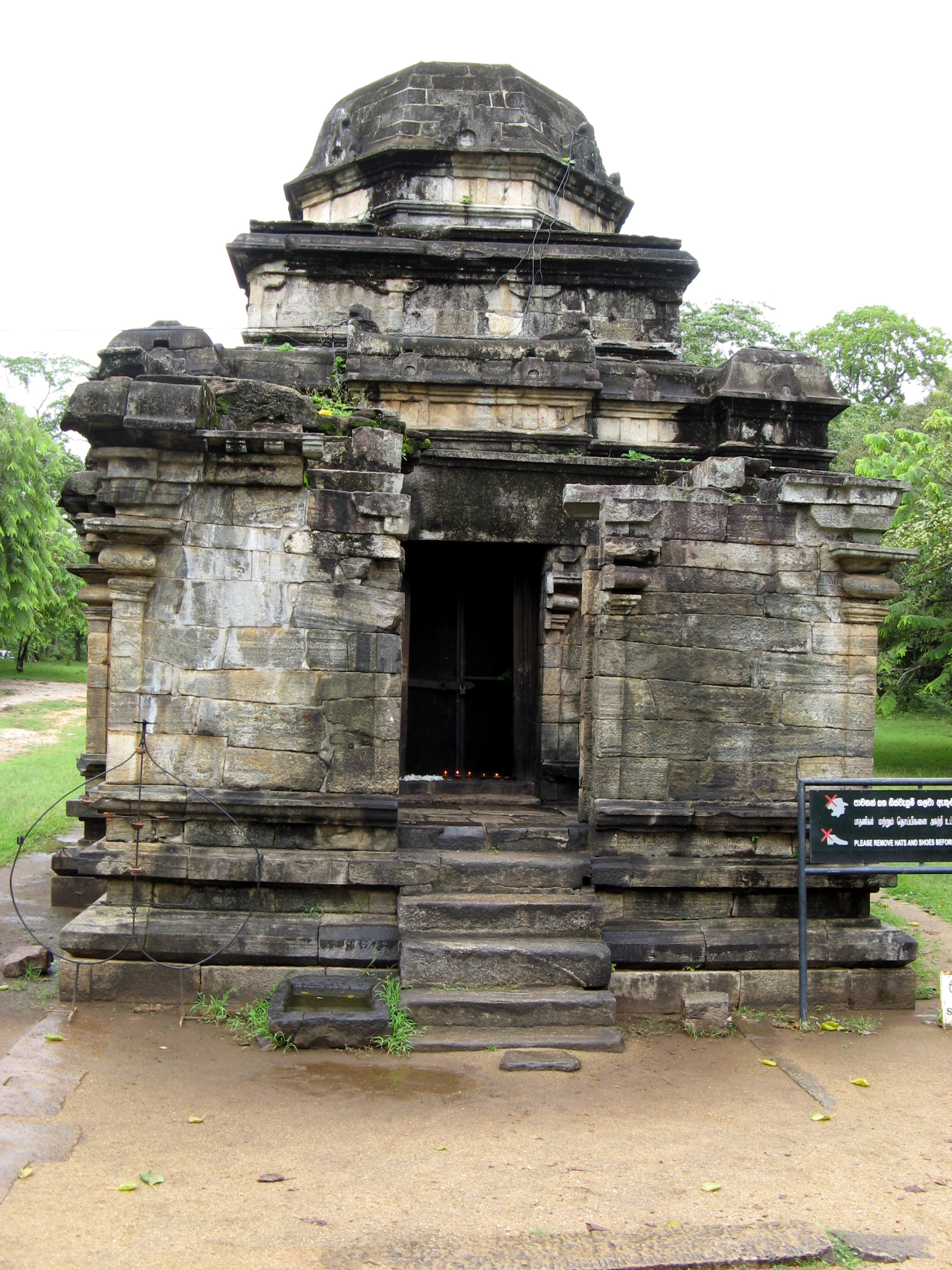 This is the oldest Hindu shrine in Polonnaruwa, dating back to the early years of the Chola occupation; its inscription describes it as a memorial to one of the queens of the Chola emperor Rajaraja I (985 - 1014 AD), who conquered Anuradhapura and built the Brihadeshvara Temple in Thanjavur.